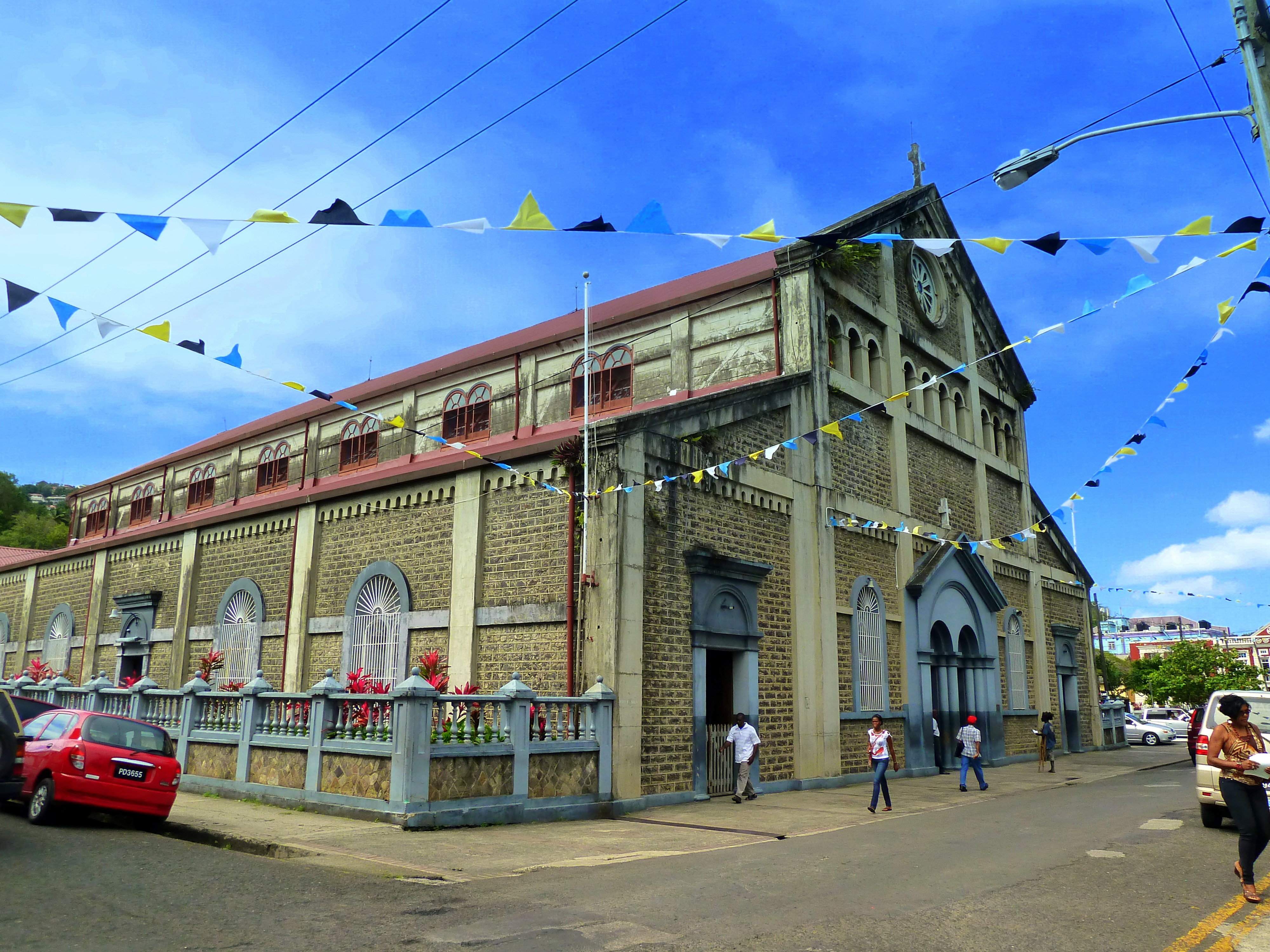 Castries - Cathedral Basilica of the Immaculate Conception